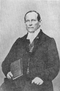 Fredrik Gabriel Hedberg, founder of Evangelical Revivalist Movement in Finland